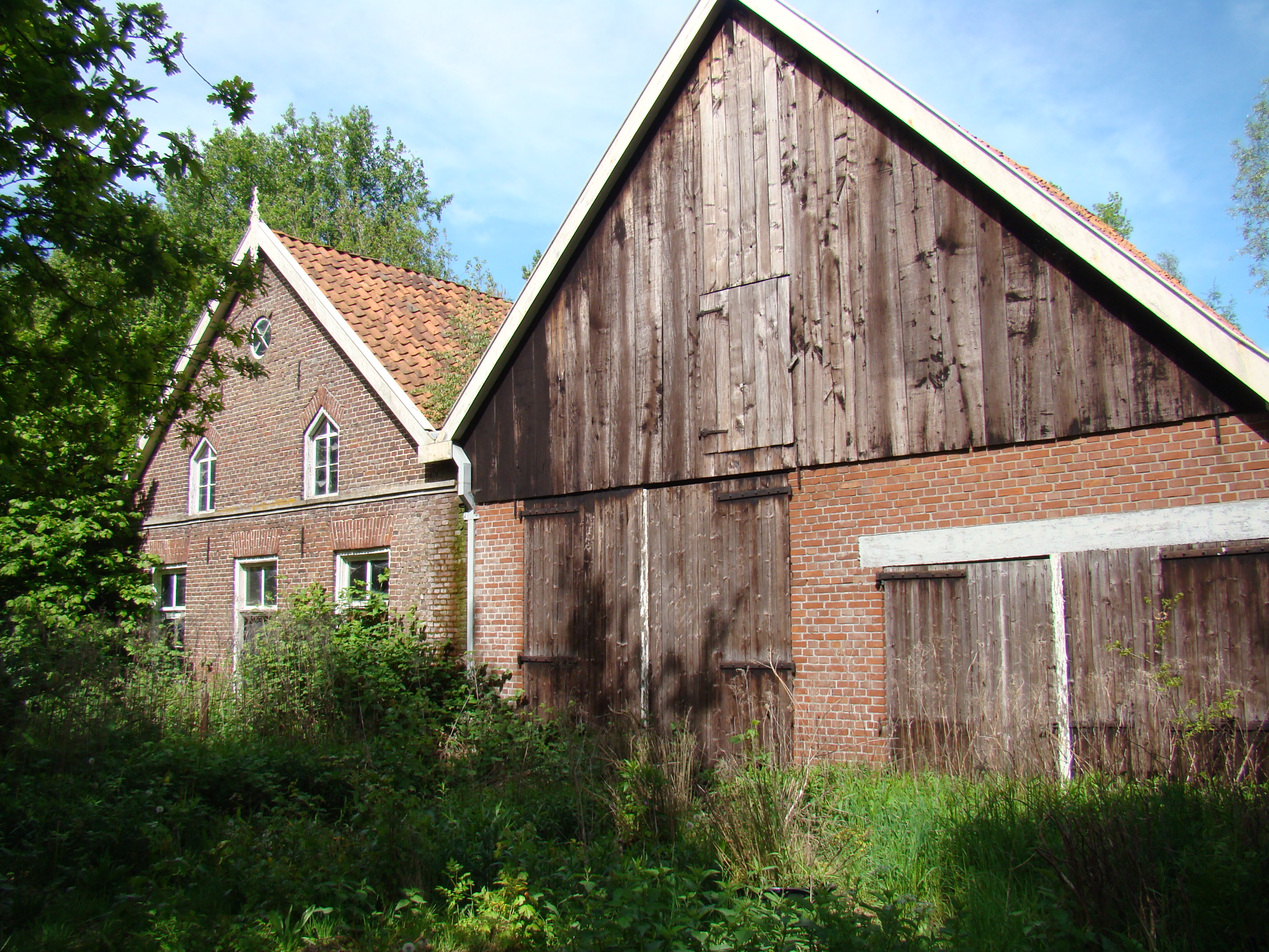 Misterstraat 85 Bredevoort